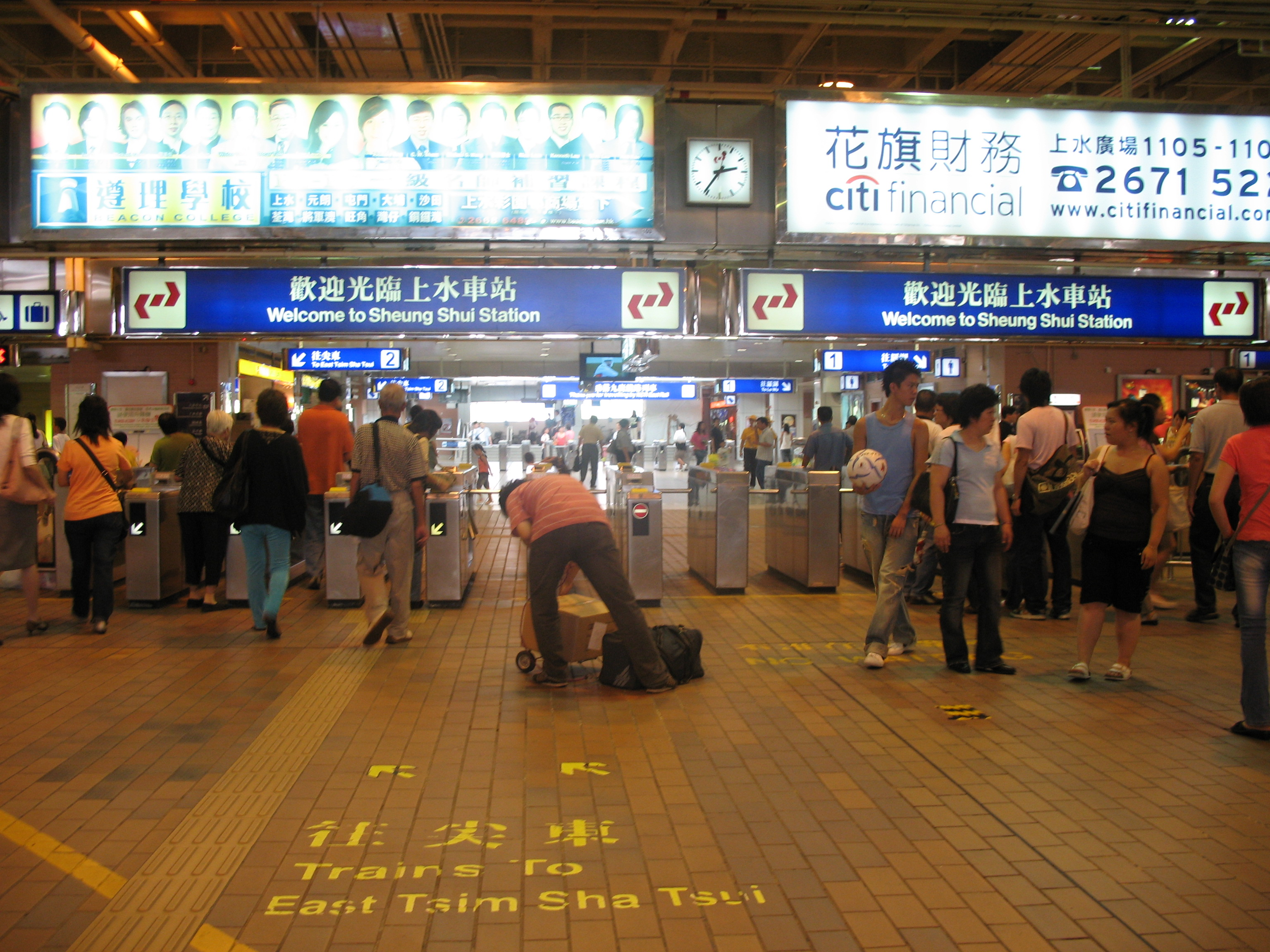 KCR Sheung Shui Station lobby 上水火車站大堂